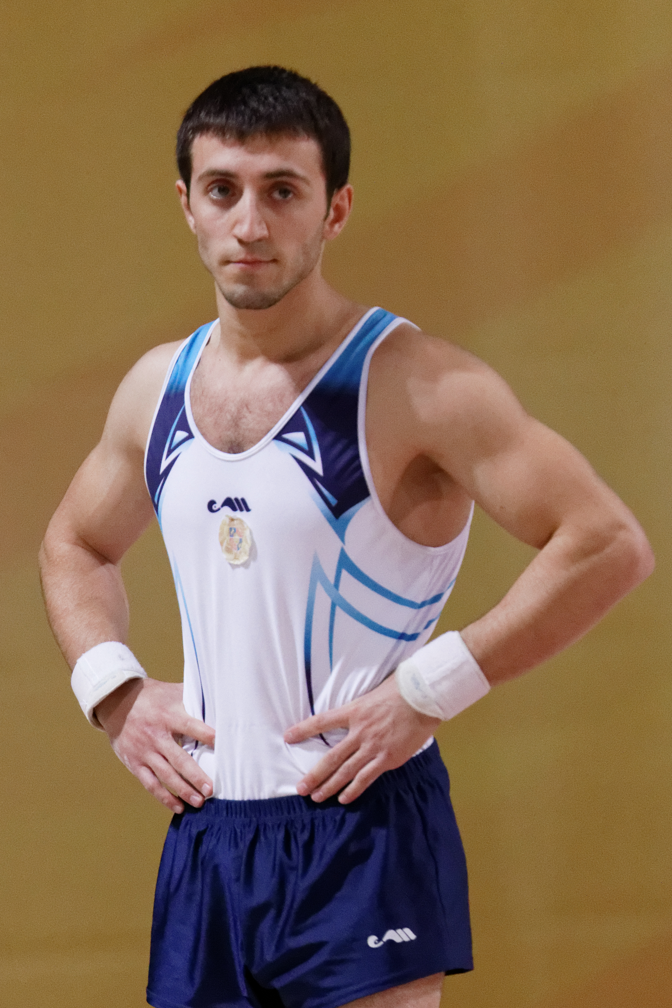 2015 European Artistic Gymnastics Championships. Men's Vault Final.